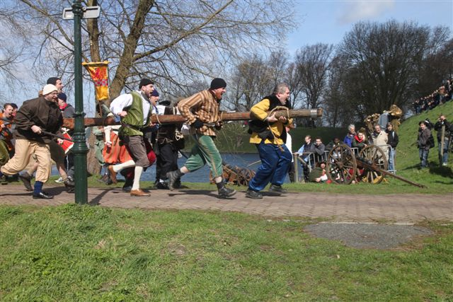 Batterring down the gate at an April 1 celebration commemorating the in 1572.